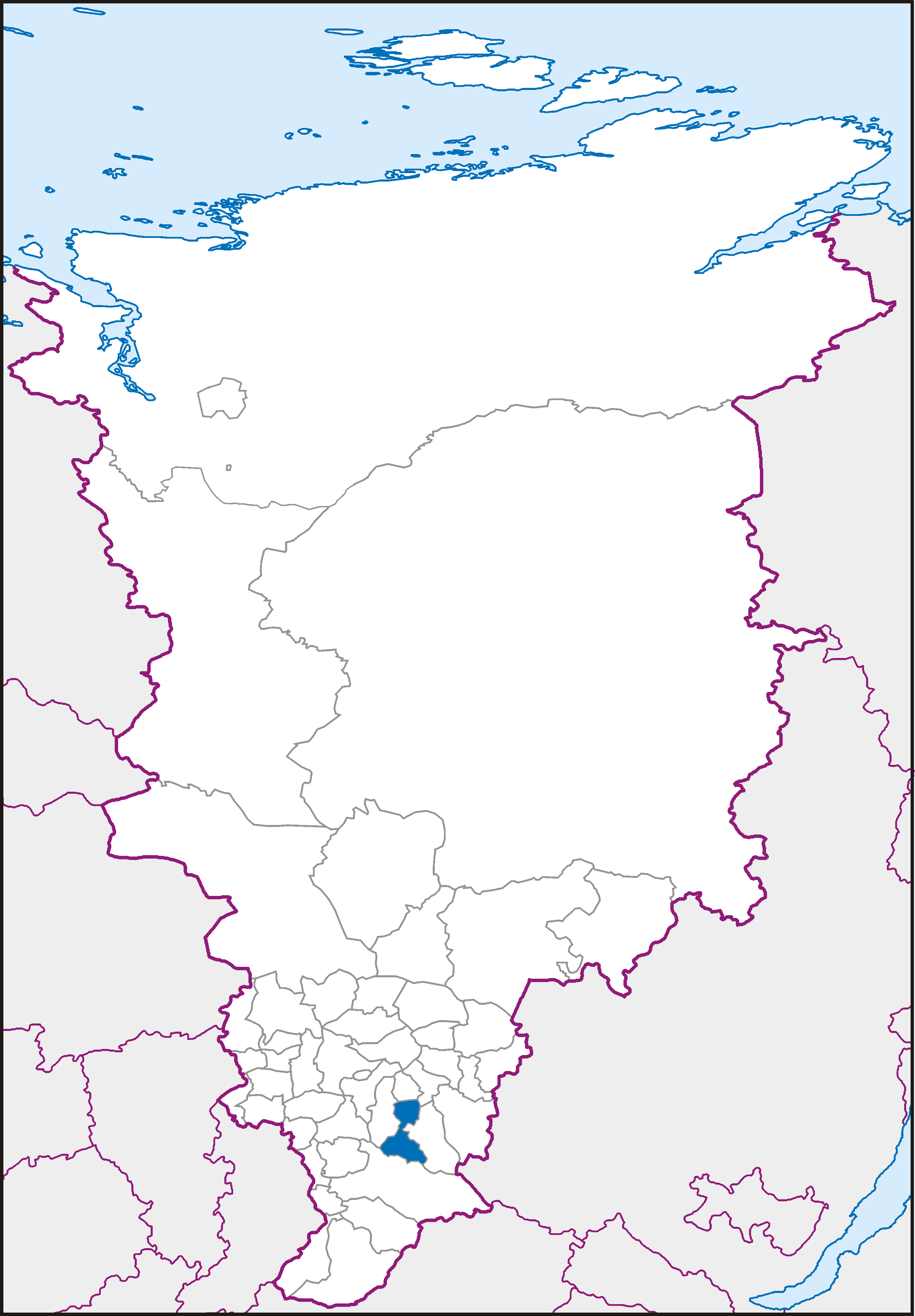 Map of Krasnoyarsk Krai in Albers Equal-Area Conic projection (Central Meridian = 95° E)